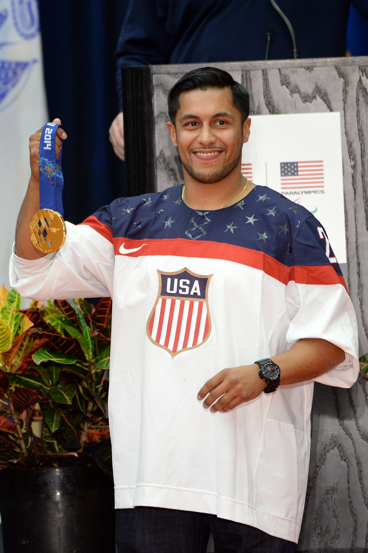 Paralympian gold medalist and Army Staff Sgt. Rico Roman holds up his gold medal from the Sochi Paralympics for sled hockey during the opening ceremony for the 2014 Warrior Games at the Olympic Training Center in Colorado Springs, Colo. Sept. 29, 2014. (DoD News photo by EJ Hersom)